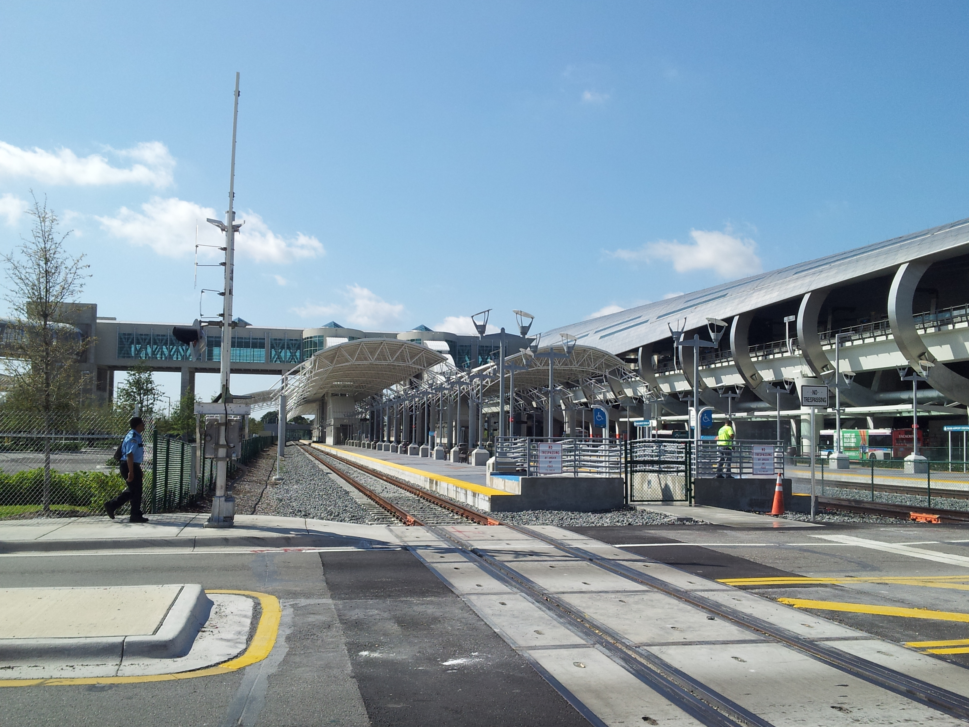 MIC train platforms